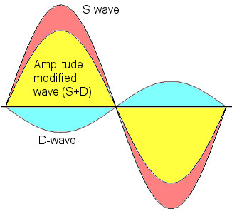 Phase-contrast microscope details